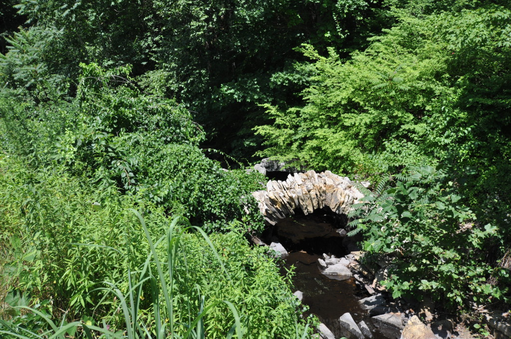 A portion of the main arch of the Mill Brook Bridge, Lisbon, Connecticut.